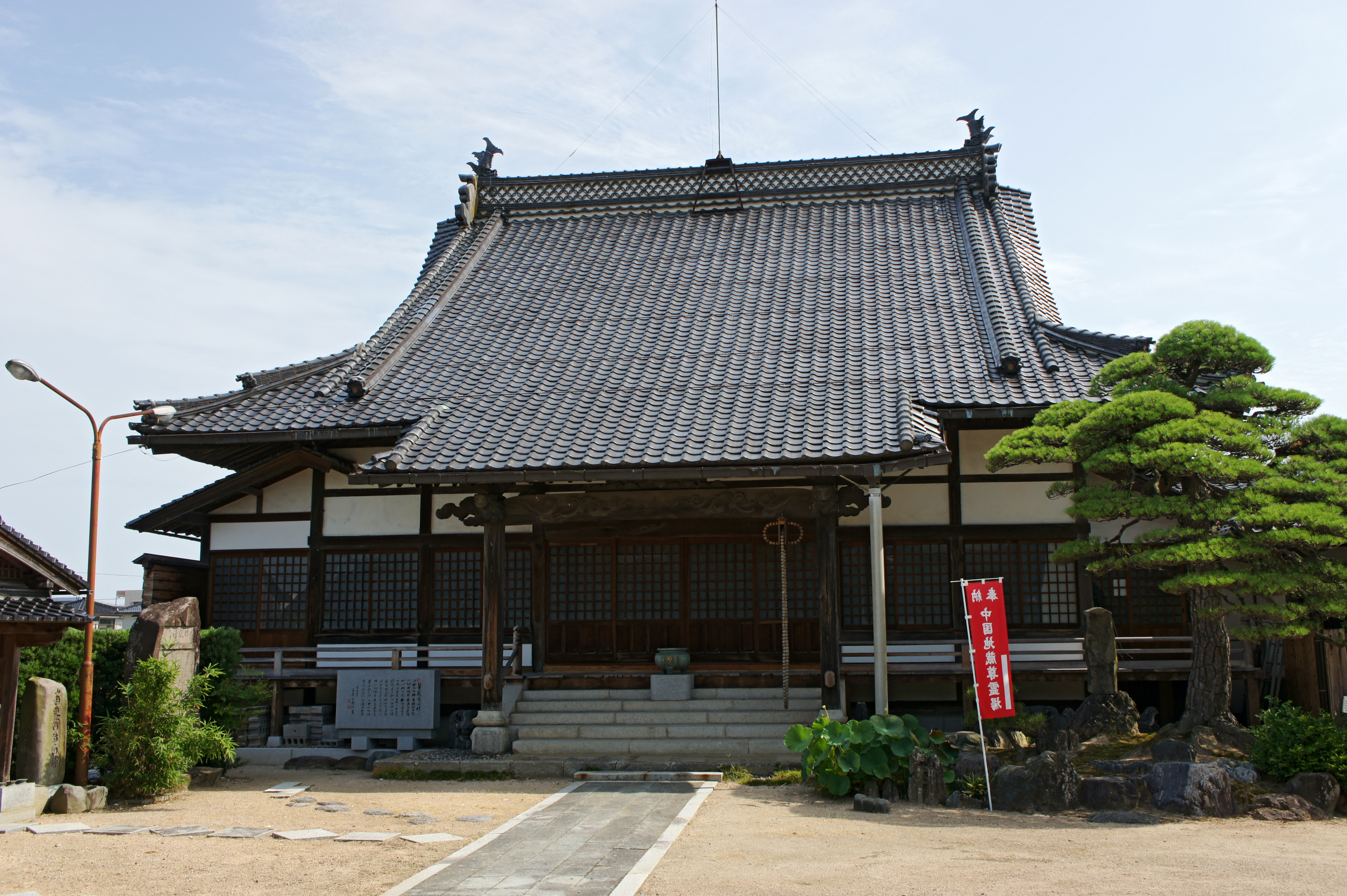 Genchuji in Tottori, Tottori prefecture, Japan.